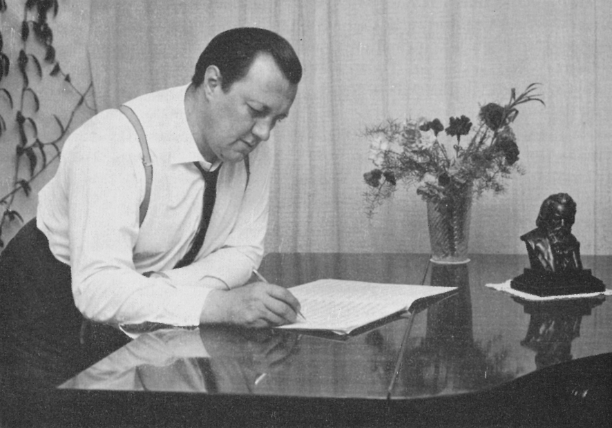 Photograph of the Finnish composer Joonas Kokkonen (1921–1996) working on his First Symphony.